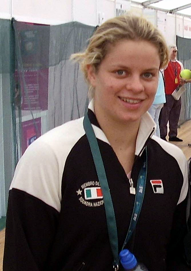 Kim Clijsters at the J&S Cup.